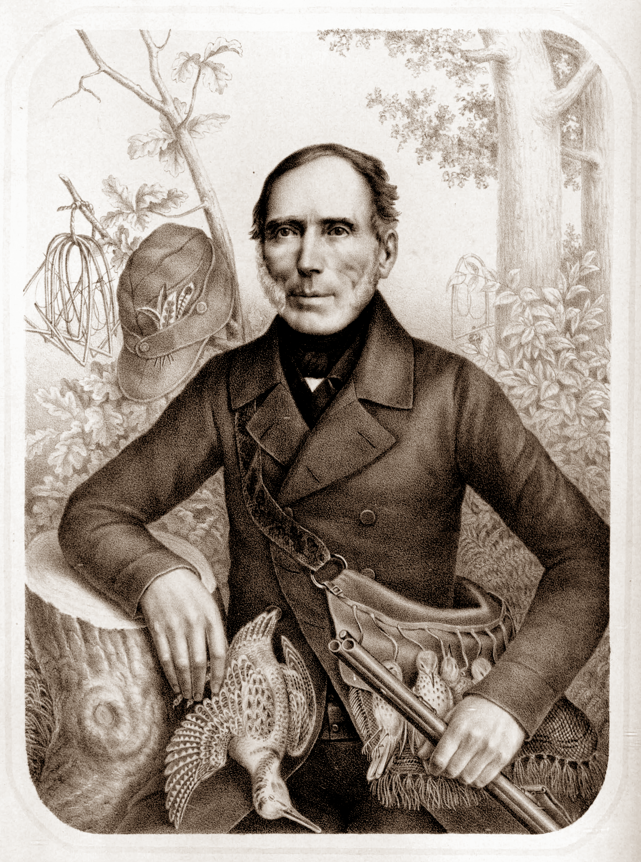 Carl Andreas Naumann (* 1786, + 1854); ornithologist; brother of Johann_Friedrich_Naumann